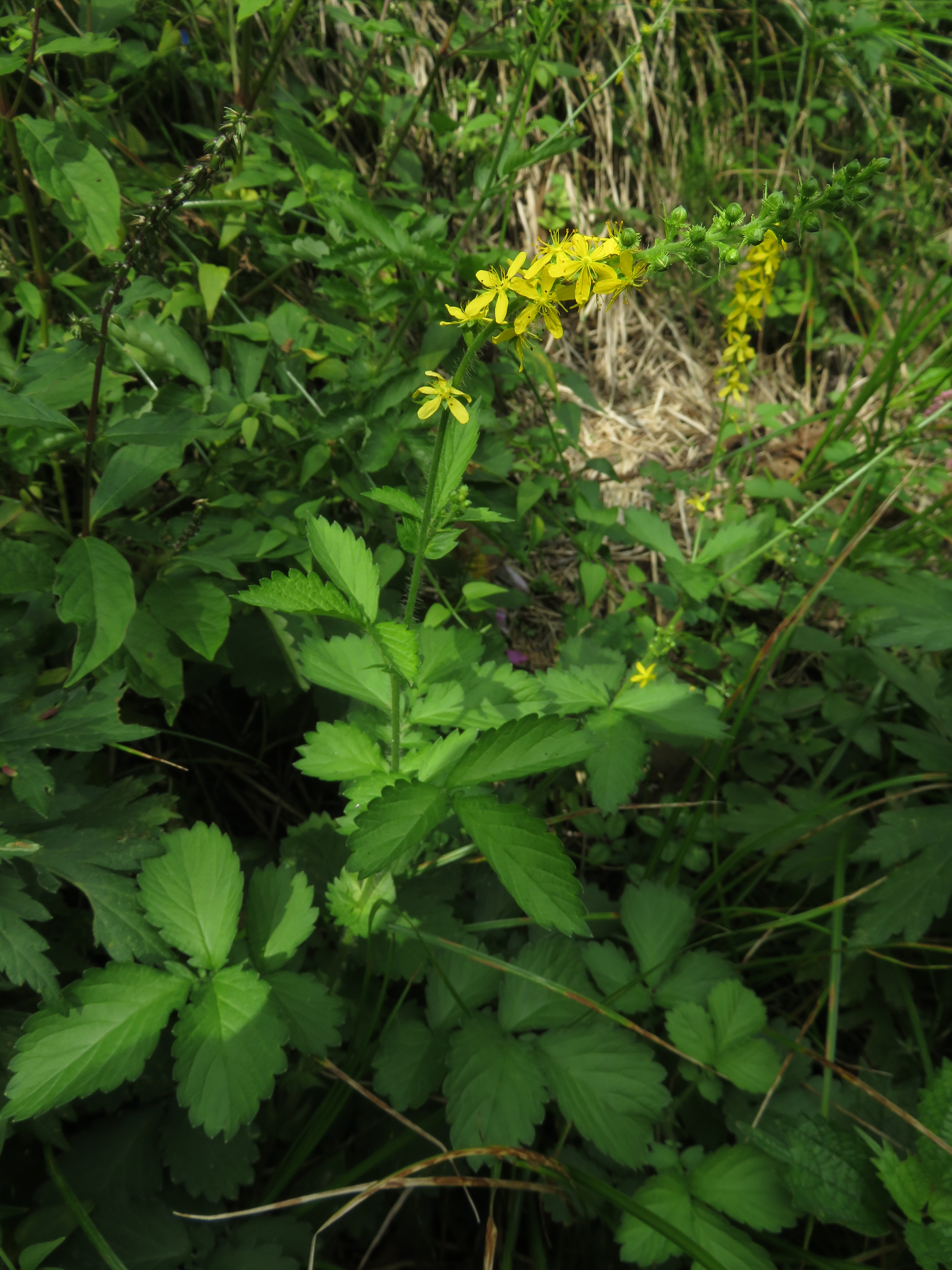 Agrimonia pilosa var. japonica, Aizu area, Fukushima pref., Japan